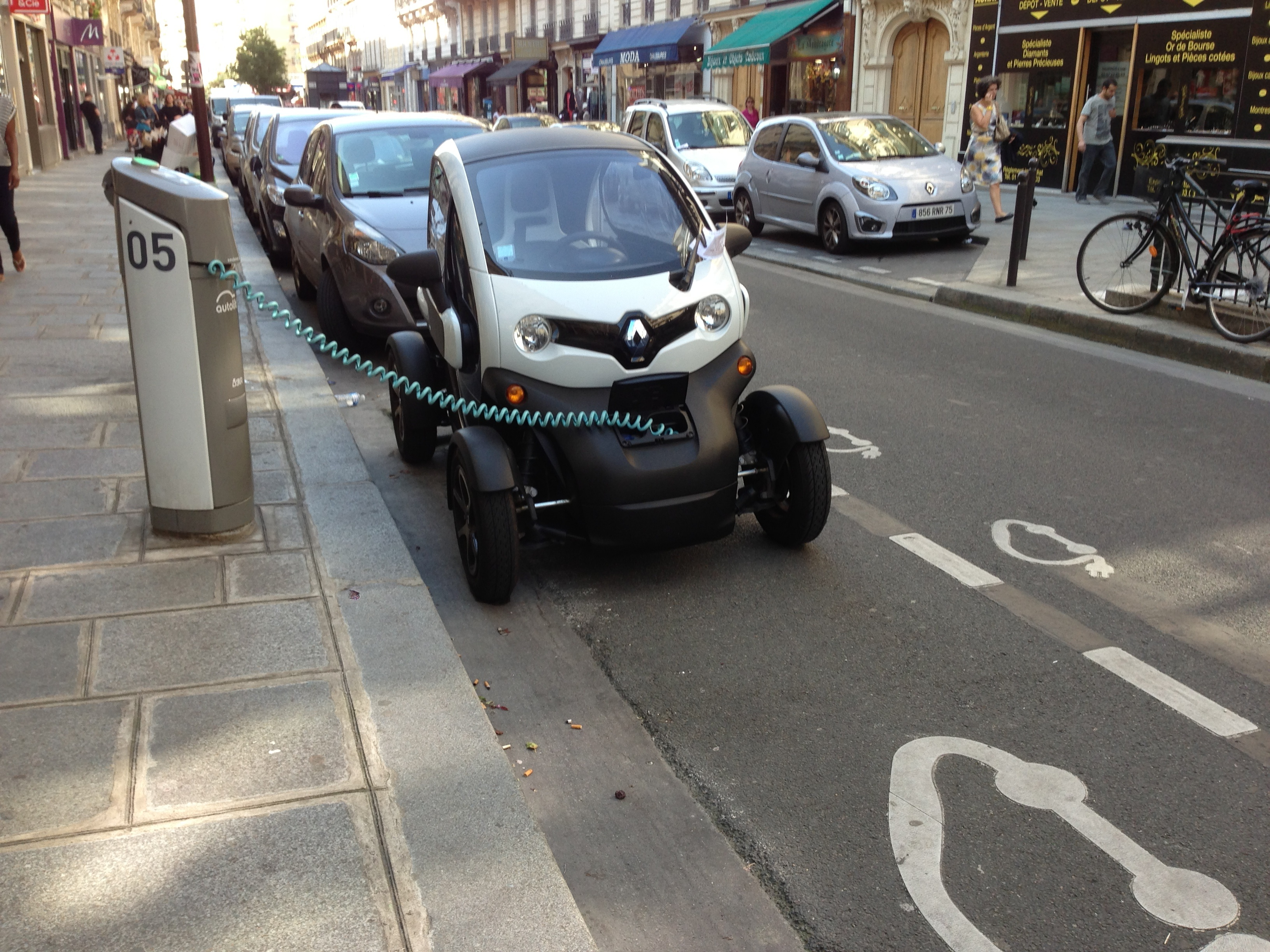 Private Renault Twizy EV using Autolib' station to charge its battery, Paris, July 2013.